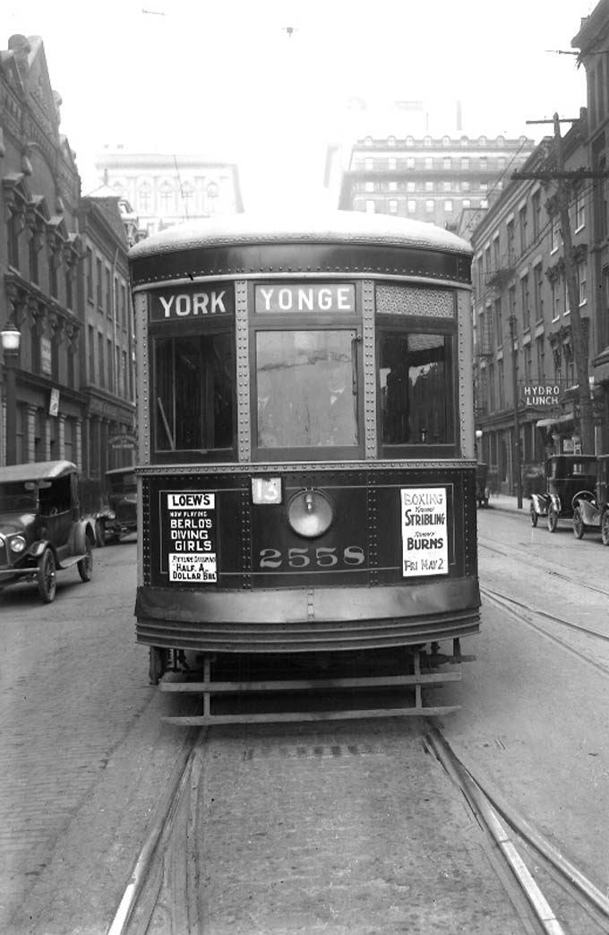 Peter Witt car no. 2558 on Yonge Street at Front Street. Toronto, Ontario, Canada.